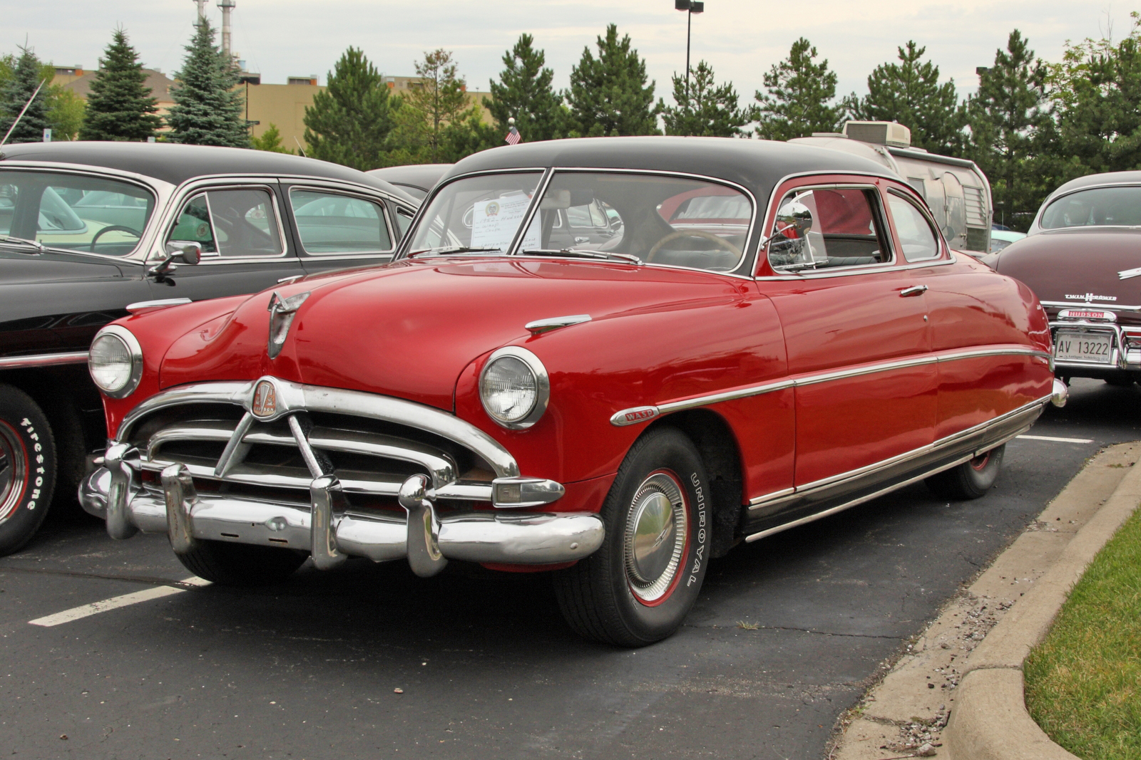 1952 Hudson Wasp. 2009 HET NATIONAL MEET Pontiac, Michigan July 13 - July 17, 2009